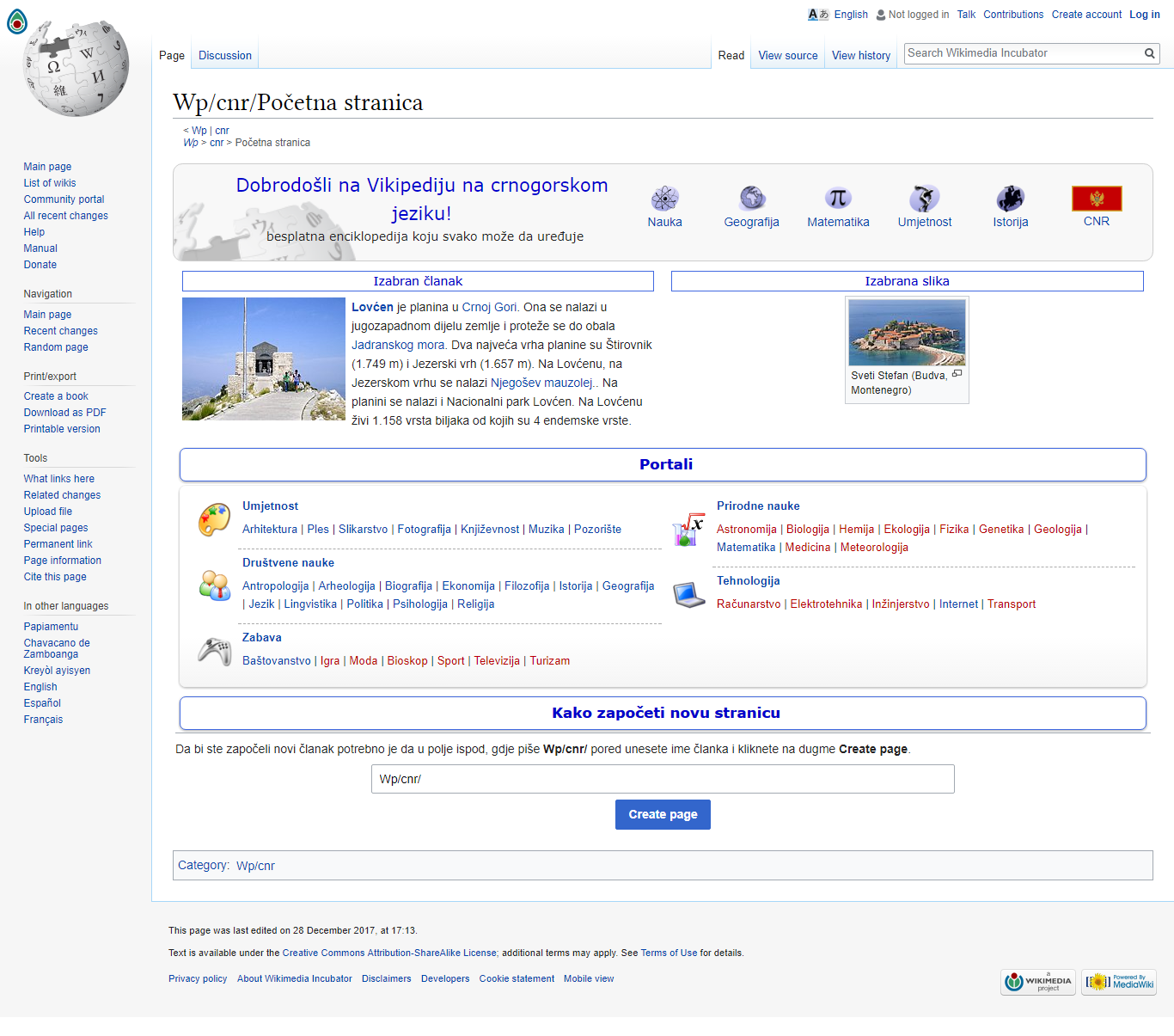 Screenshot of the latest version of the Montenegrin Wikipedia's main page Srpskohrvatski / српскохрватски: Snimka ekrana posljednje verzije glavne stranice crnogorske Wikipedije